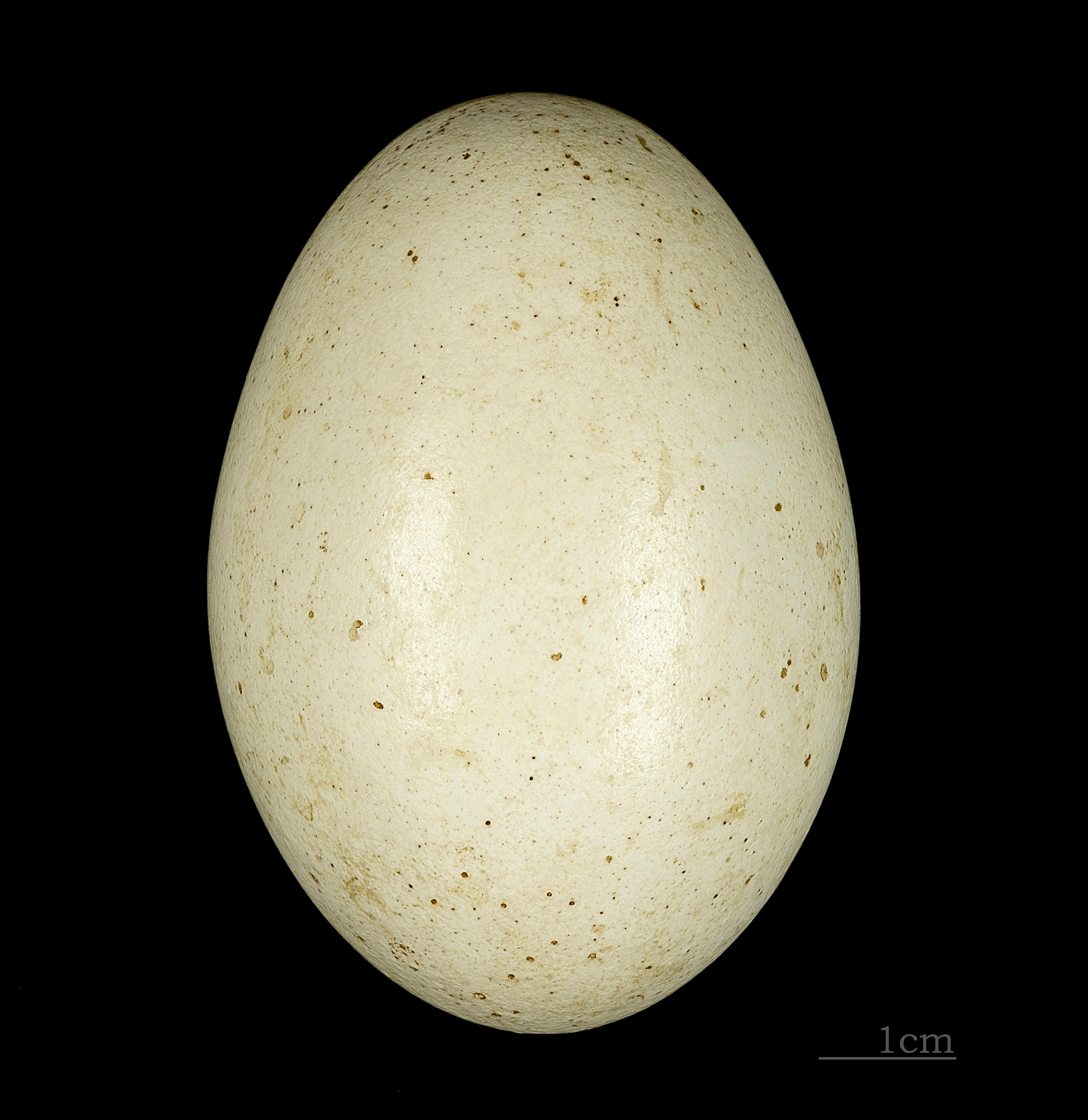 Egg of Abyssinian Ground Hornbill Collection of Jacques Perrin de Brichambaut.